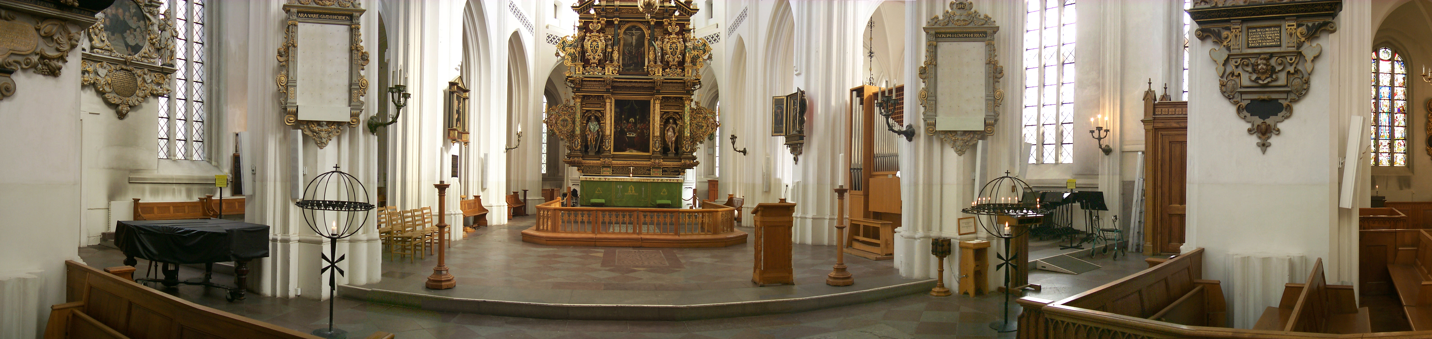 The church of St Peter in Malmo, Sweden.